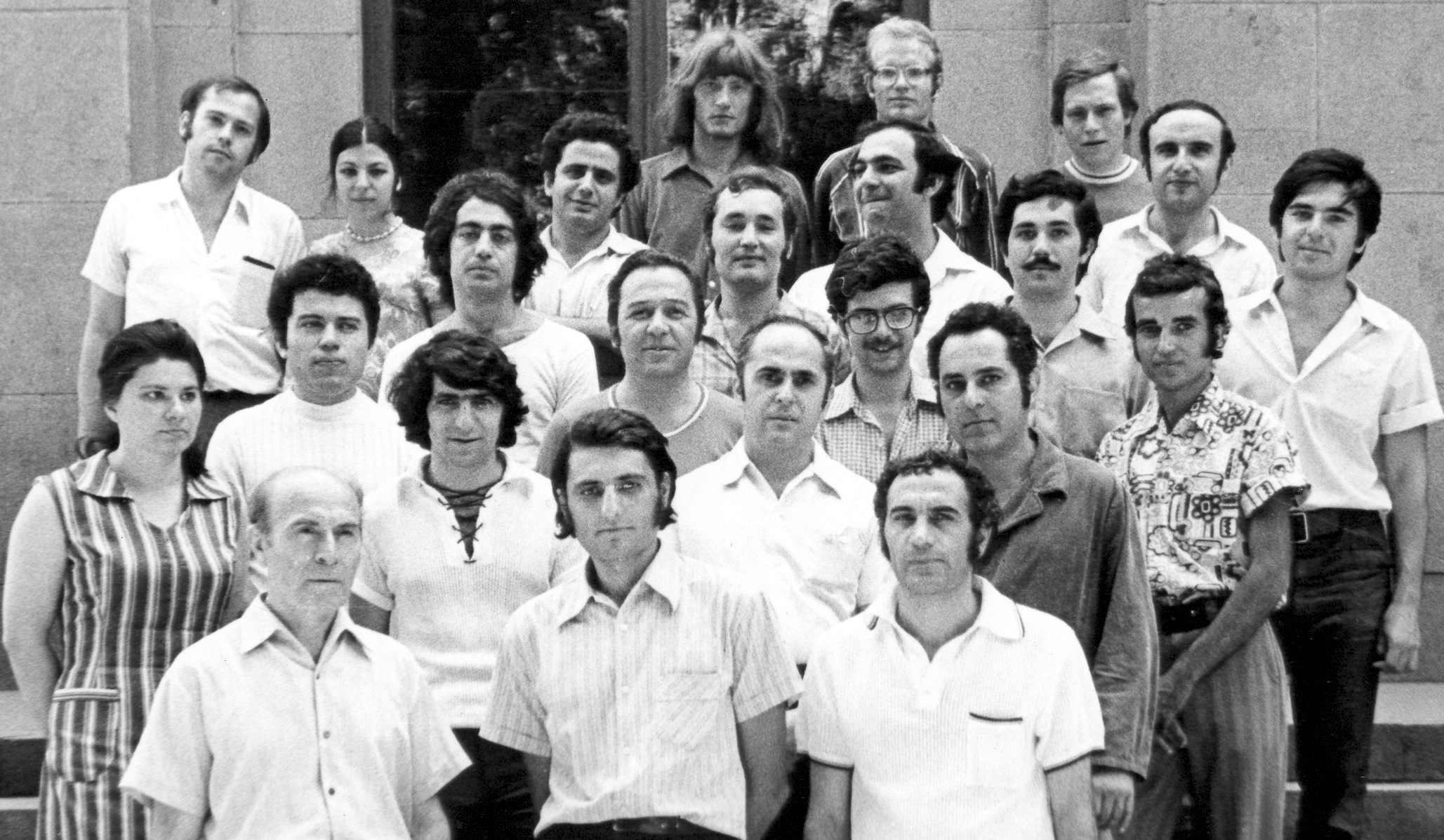 Edvard Chubaryan 75th Birthday, 05 May 2011 05, No. 42